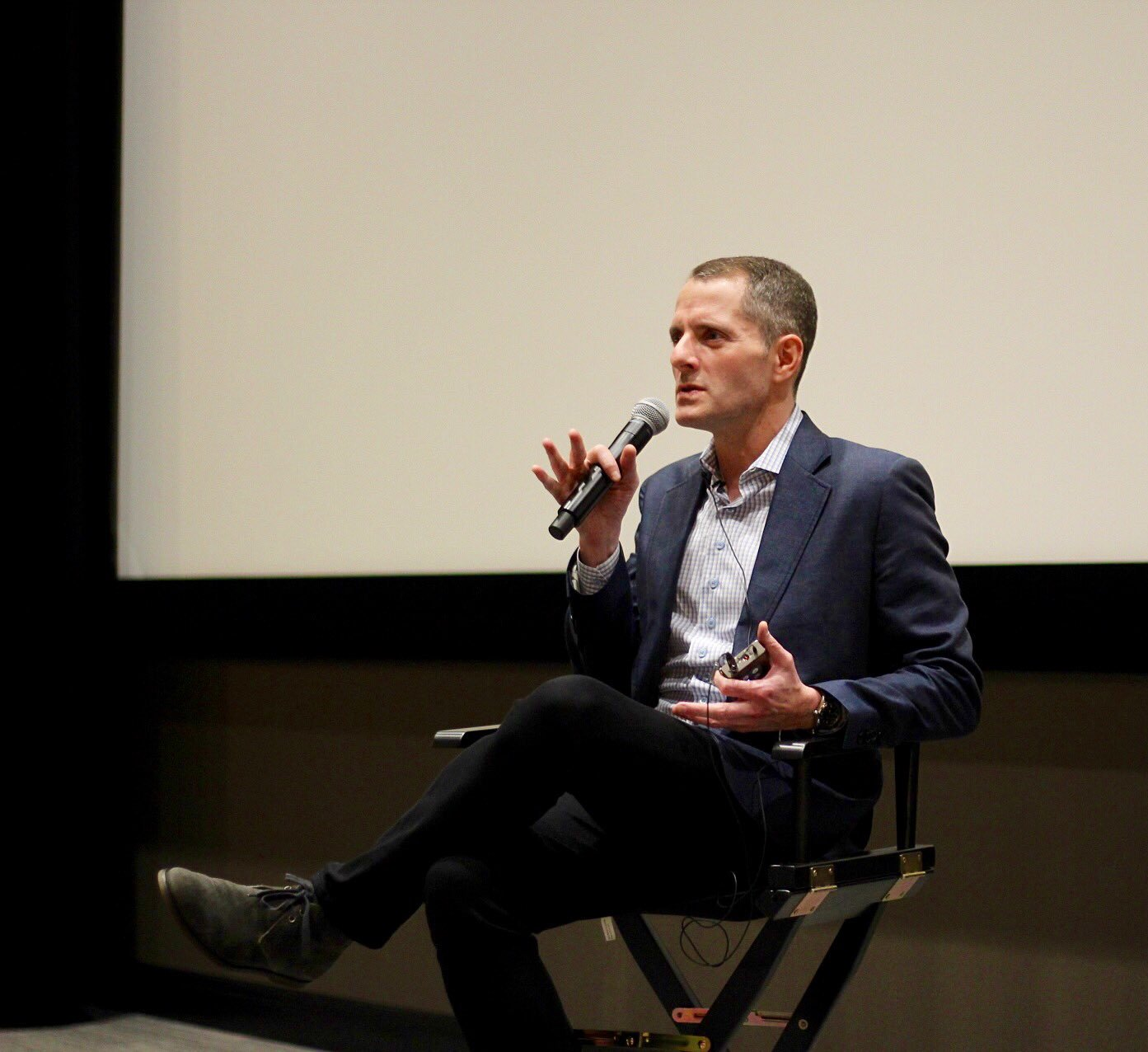 Photo of AH at Belmont University, 2017